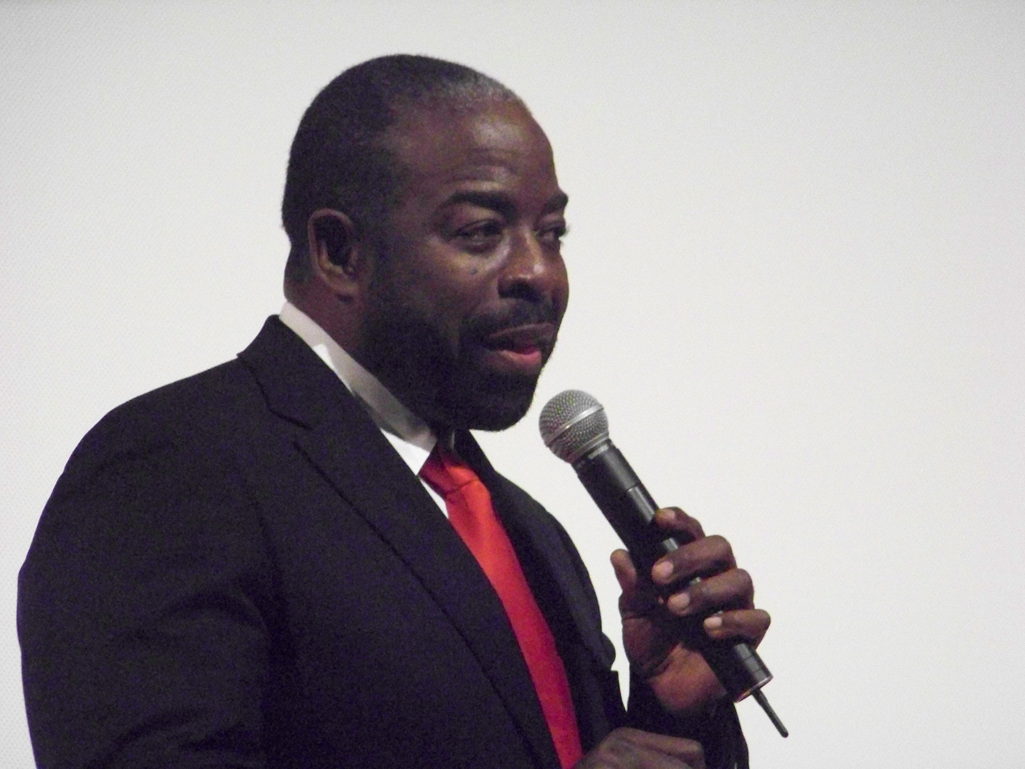 Les Brown speaking in Atlanta, Georgia.